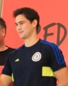 Phil Younghusband participating in the launch of the "Red Card to Child Labor" campaign in the Philippines led by the International Labour Organization.